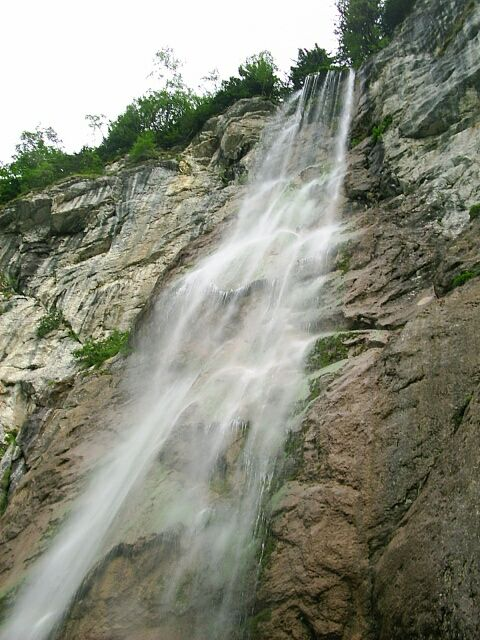 Skakavac waterfall near Sarajevo, BiH